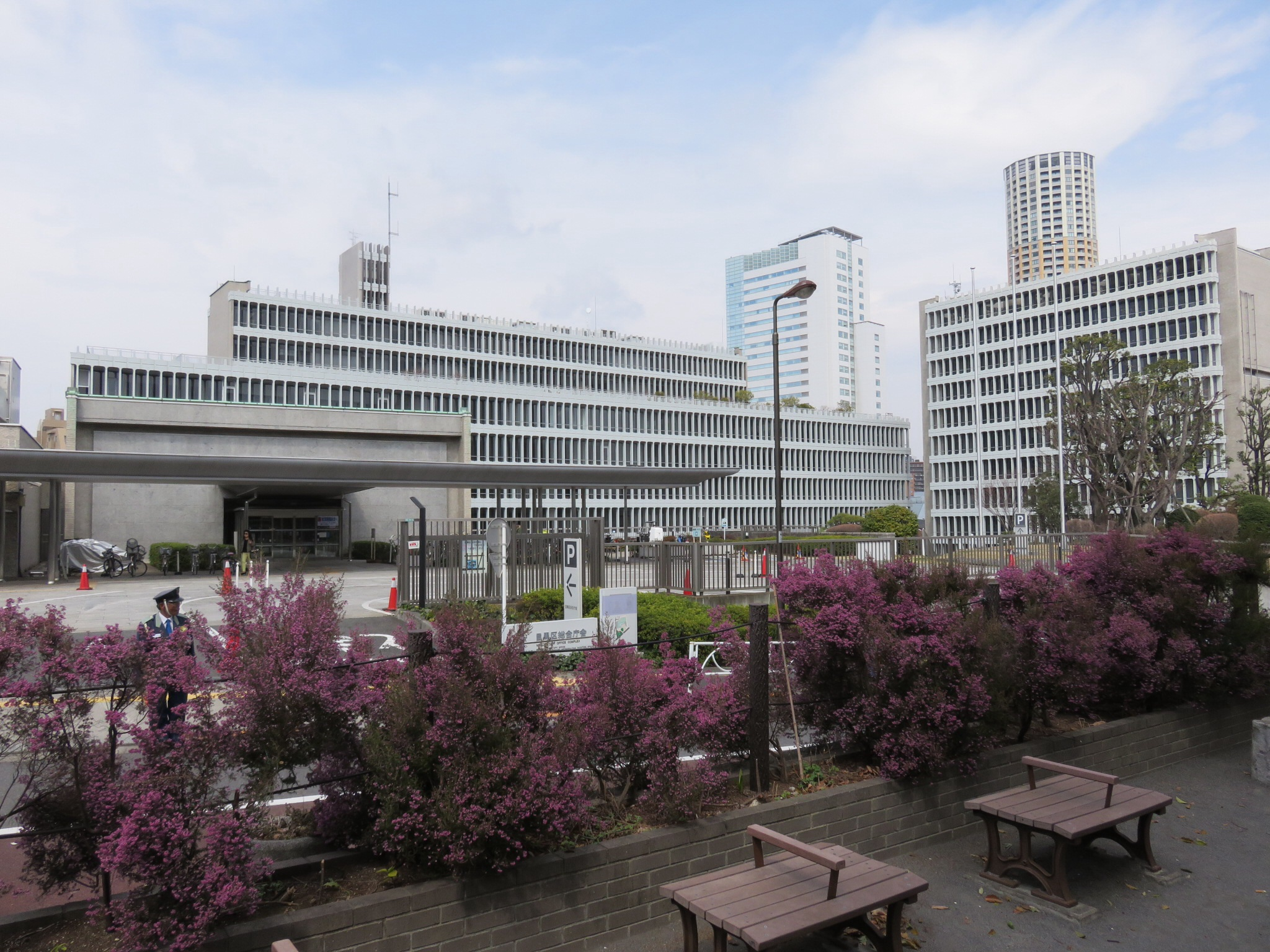 Meguro, Tokyo City Office, Designed by Togo Murano (1966)